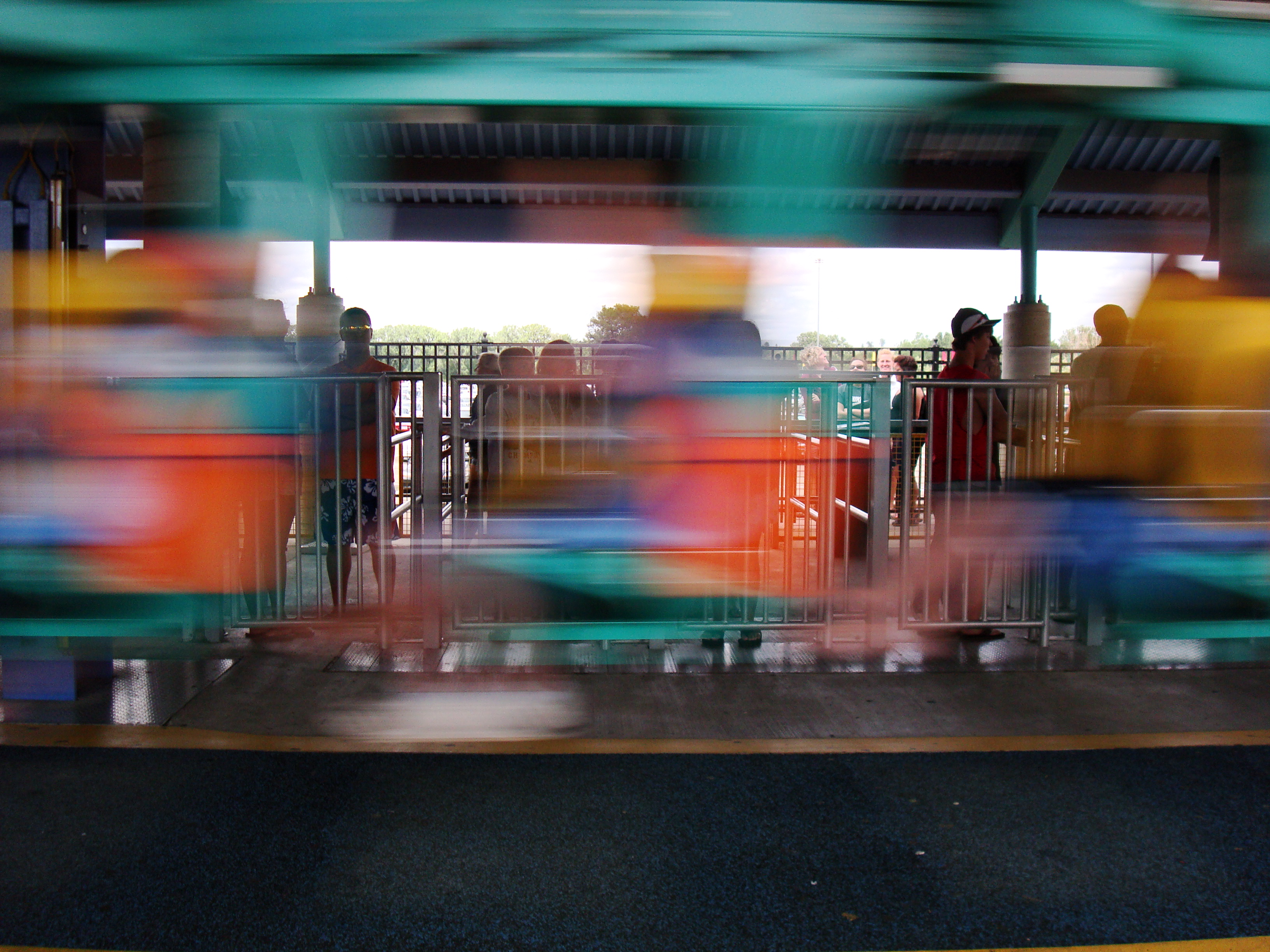 Steel Venom at Valley Fair amusement park in Shakopee, Minnesota